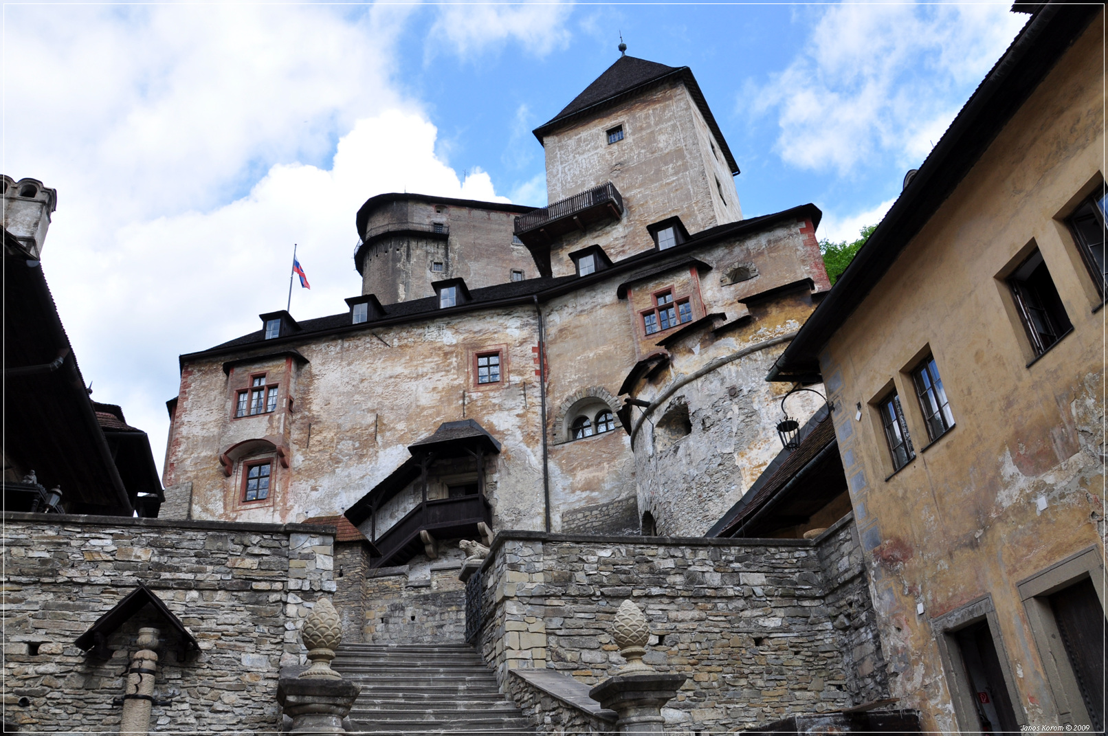 Upper castle, sight from lower courtyard